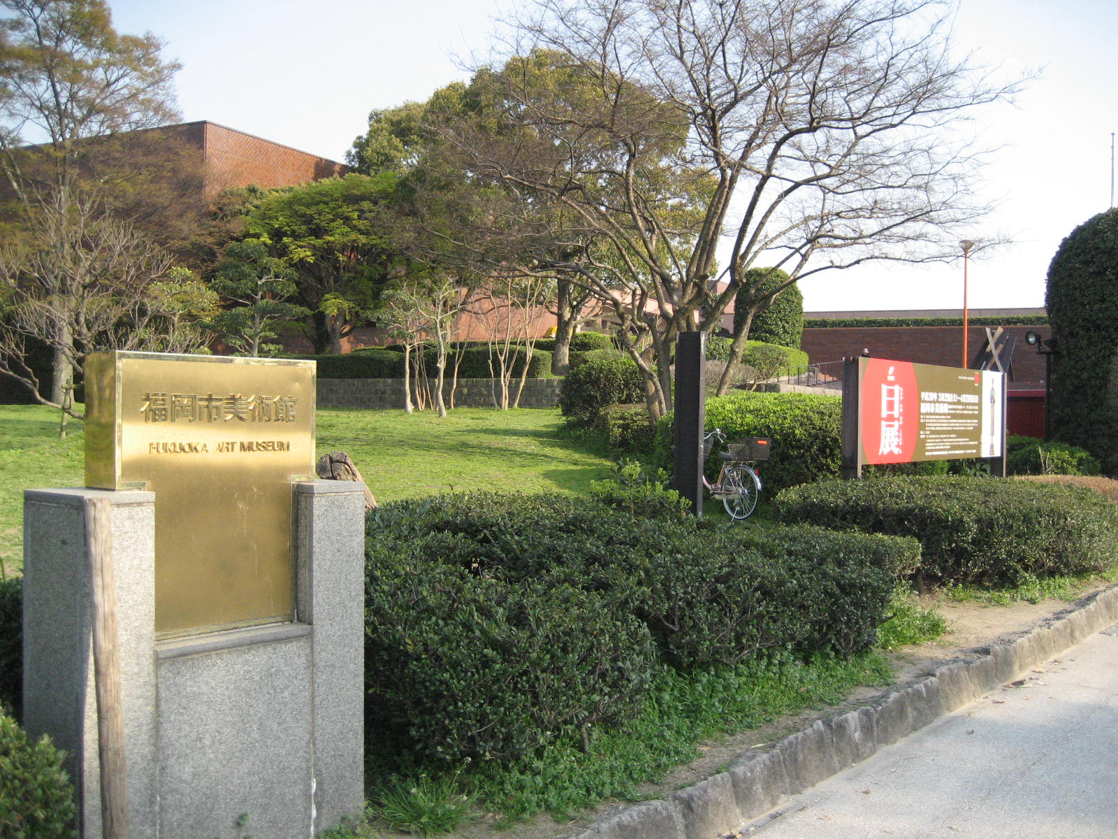 Fukuoka Art Museum in Ohori Park, Fukuoka, Japan